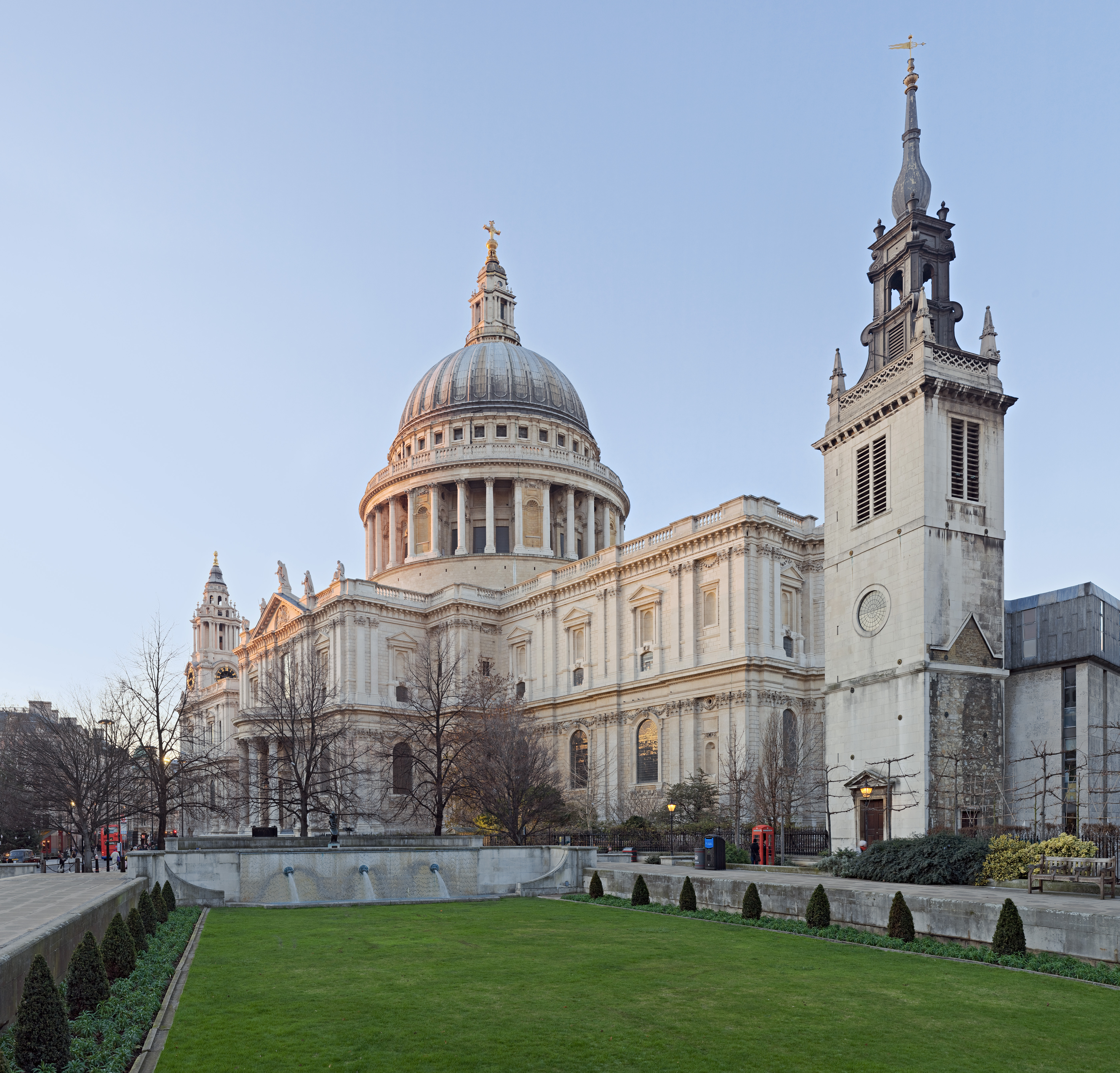 St Paul's Cathedral and the remaining tower of St Augustine, Watling Street, which was otherwise destroyed during World War 2. This is a HDR panoramic stitch, comprising 60 frames (3 exposures * 20 segments).